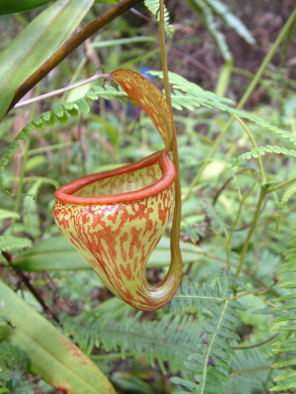 Undescribed Nepenthes species from Sulawesi